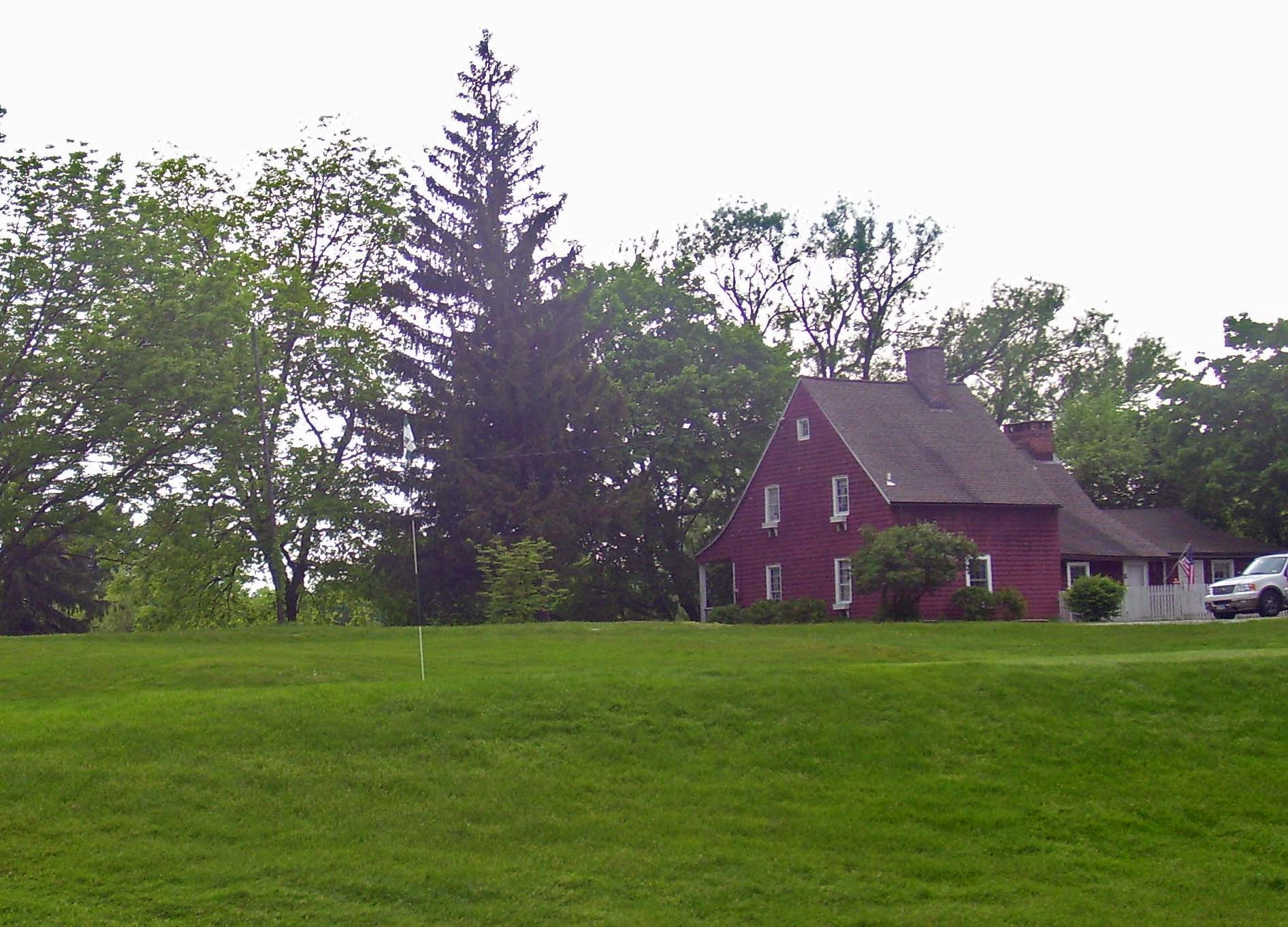 Colonial-era frame cottage in Garrison Grist Mill Historic District, Garrison, NY, USA. Currently on Highlands Country Club golf course.